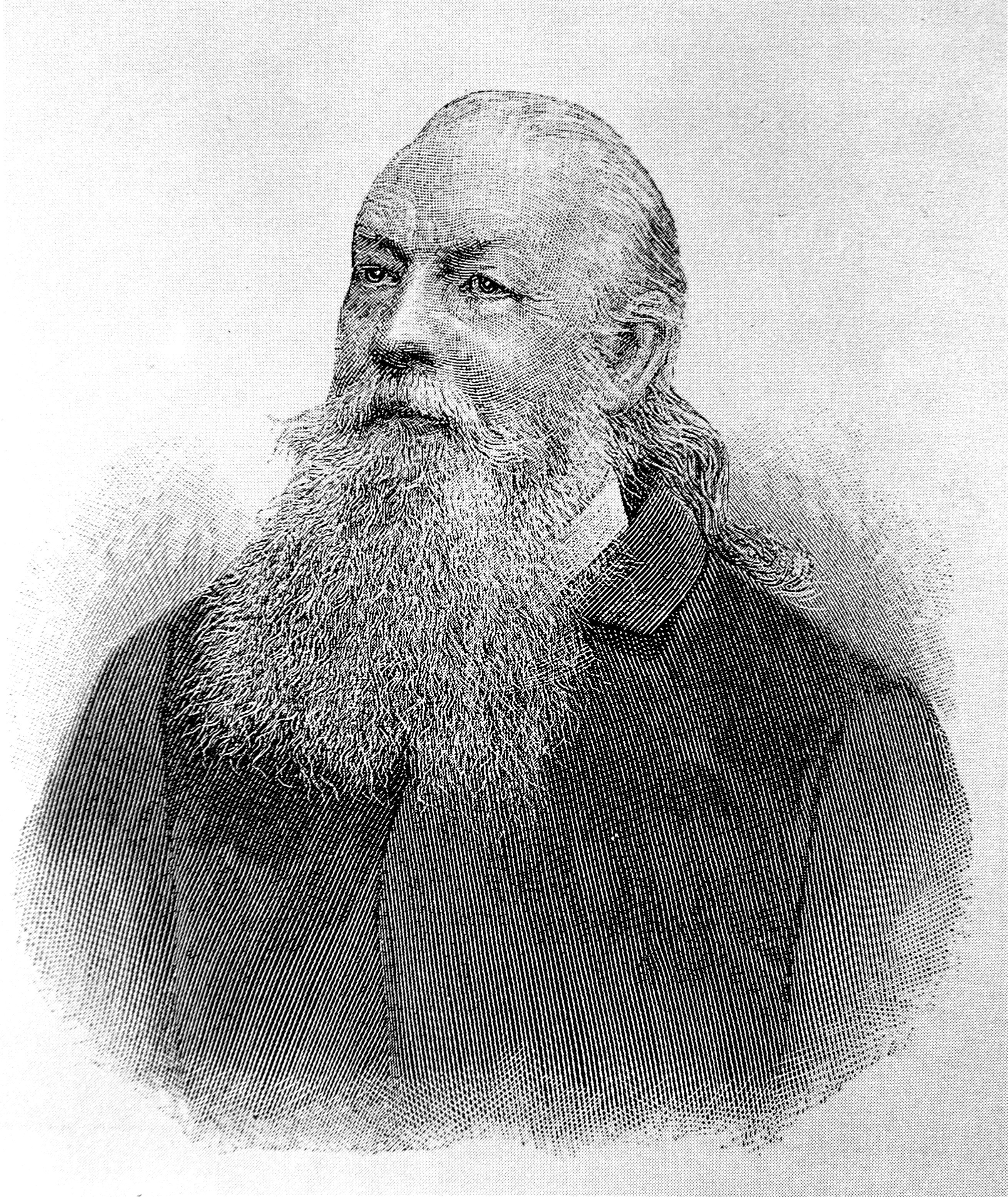 Otto Volger (1822-1897), German geologist und politician.